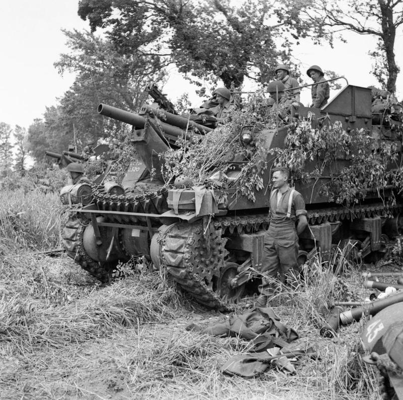 D-day - British Forces during the Invasion of Normandy 6 June 1944 A battery of M7 Priest 105mm self-propelled guns from one of 3rd Division's Royal Artillery Field Regiments near Hermanville-sur-Mer, 6 June 1944.